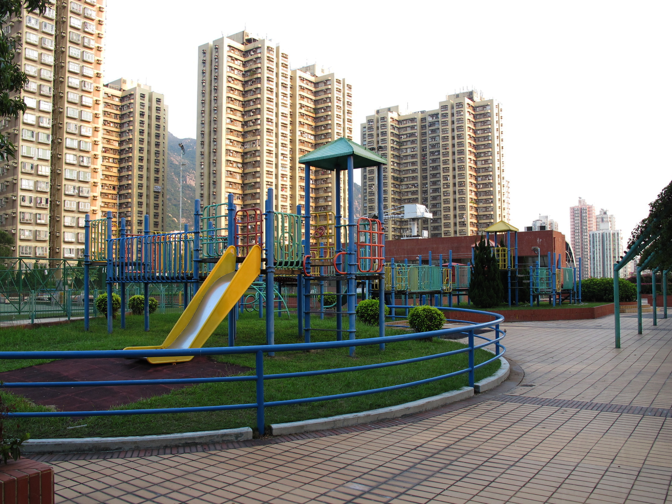 Tuen Mun Town Plaza Abanded Playground